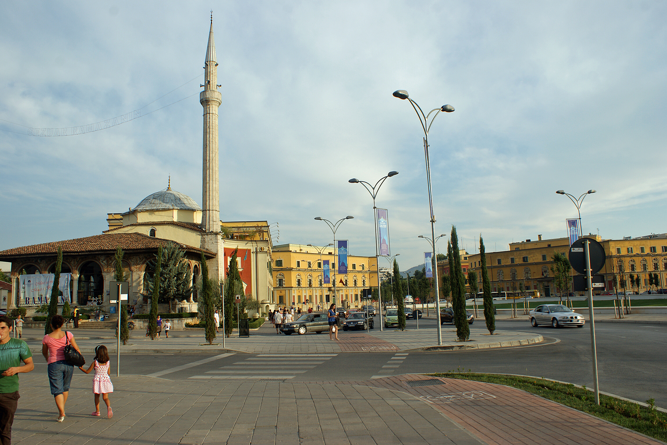 Skanderbeg Square in Tirana during Ramadan, summer 2012